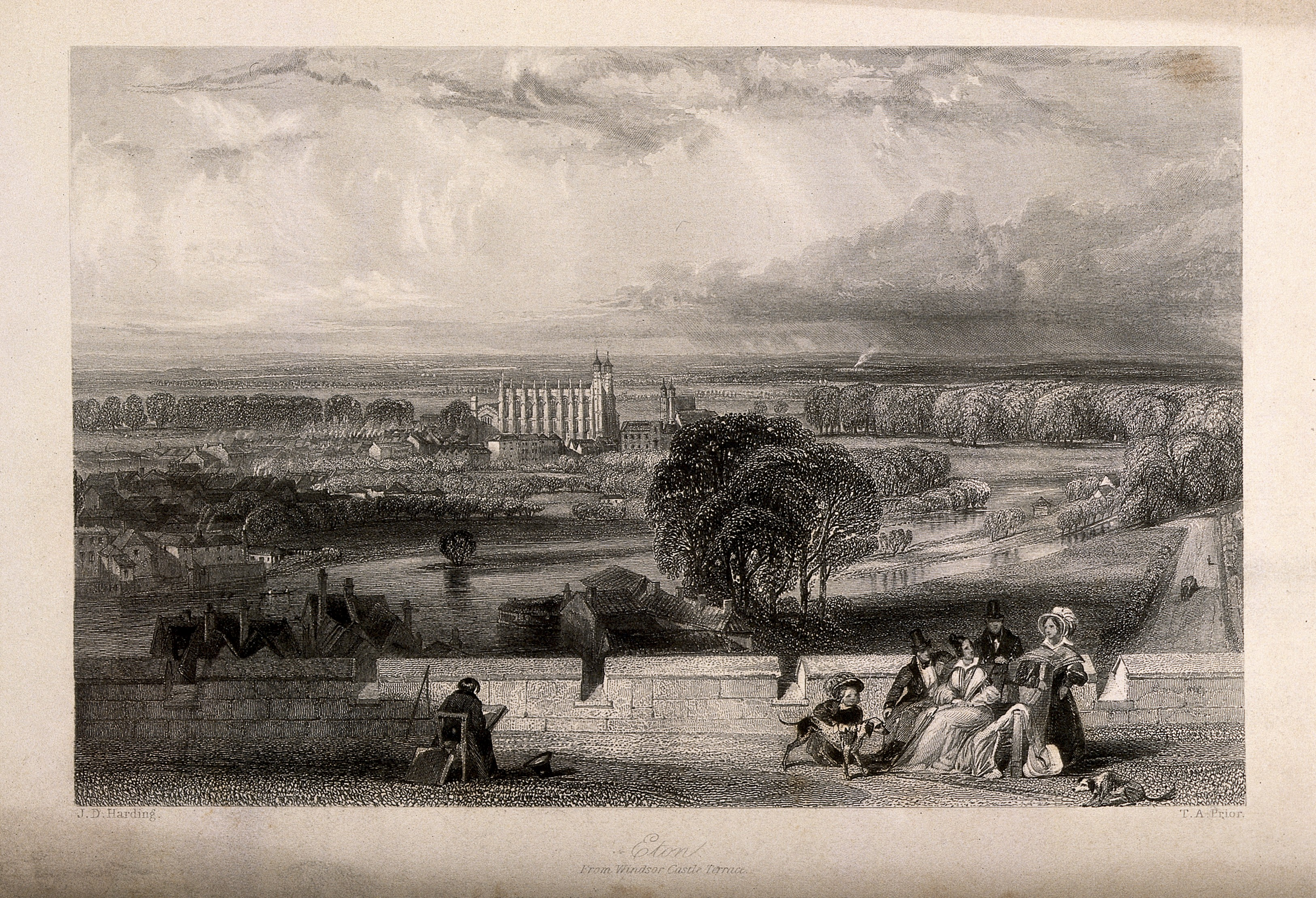 An artist drawing a panoramic view of Eton College School from Windsor Castle terrace, Berkshire. Line engraving by T.A. Prior, 1840, after J.D. Harding. Iconographic Collections Keywords: James Duffield Harding; Thomas Abiel Prior; Eton College School (England)